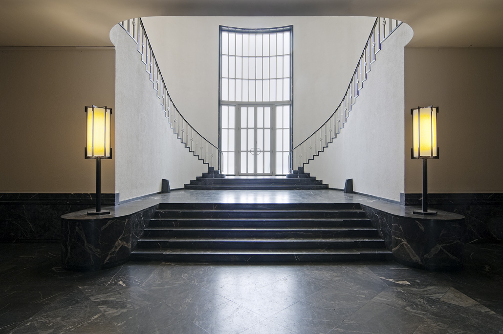 Berlin-Dahlem, ehem. US-Hauptquartier (jetzt Wohnanlage The Metropolitan Gardens). Foyer im Hauptgebäude (The Marble Gallery).